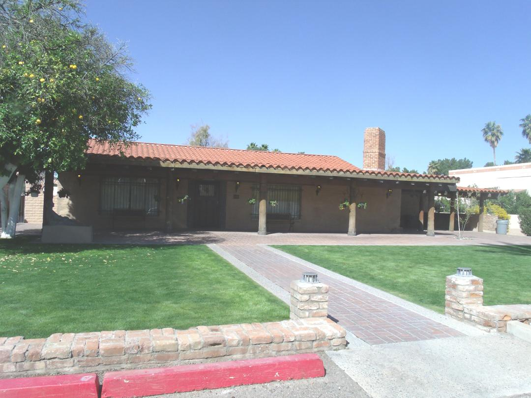 Louise lincon Kerr House built in 1925 in Scottsdale, Arizona. Listed in the National Register of Historic Places.